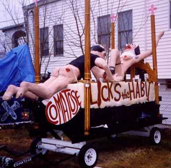 New Orleans carnival: Float of "Mystic Corpse of Comatose" subkrewe of the Krewe du Vieux parade, entitled "Comatose Licks the Habit".